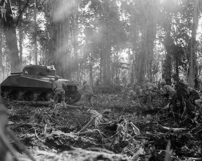 Troops from the US 129th Infantry Regiment advance with an M4 tank on Bougainville, 16 March 1944, during the Japanese counterattack on the US lodgement around Torokina